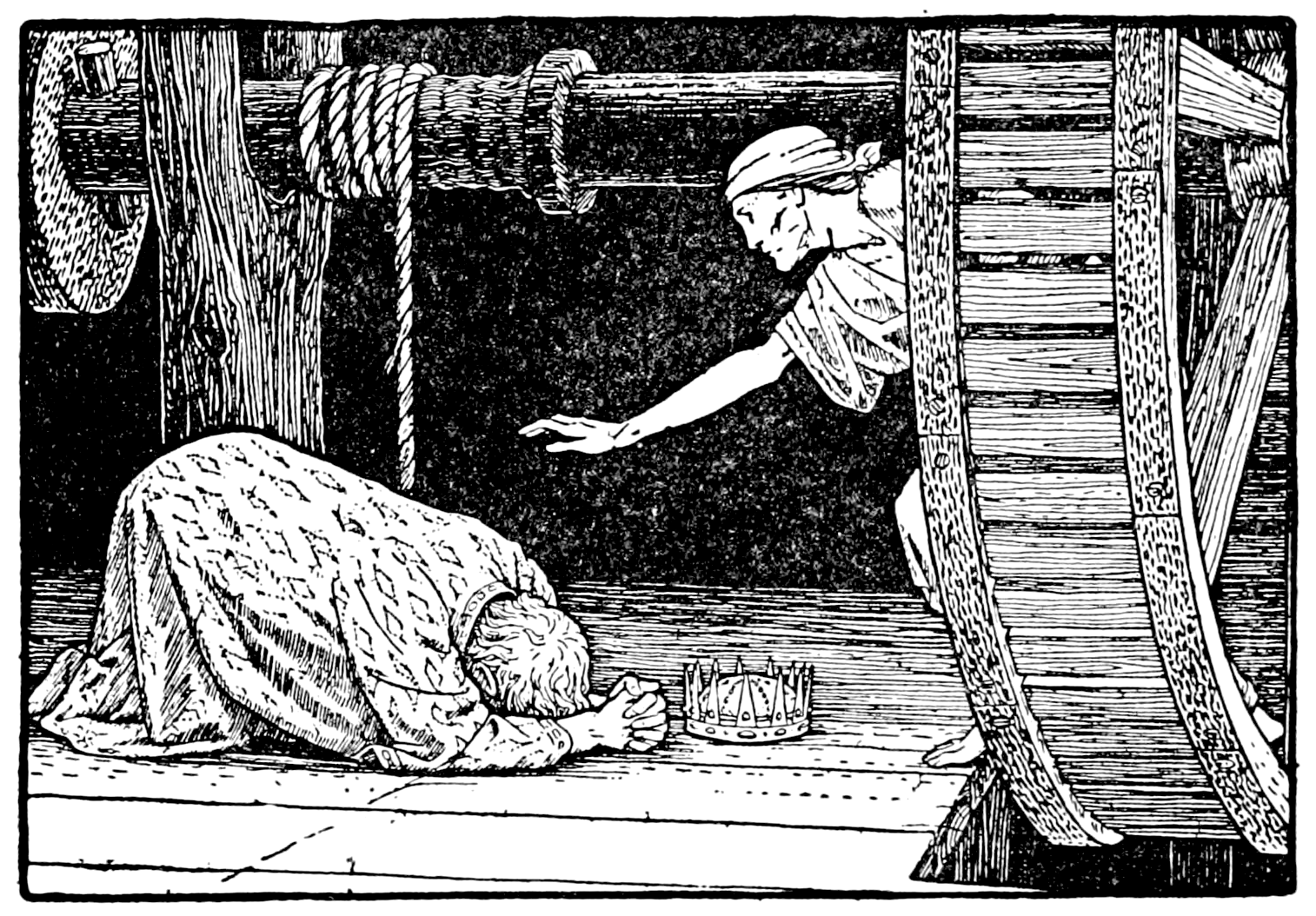 Illustration from a book of fairy tales from Europe, translated into english